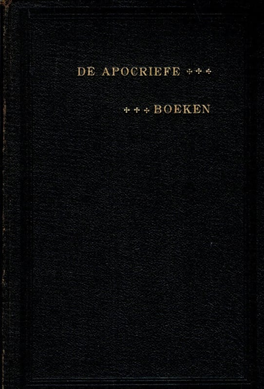 De apocriefe boeken (The Apocryphal books), cover.